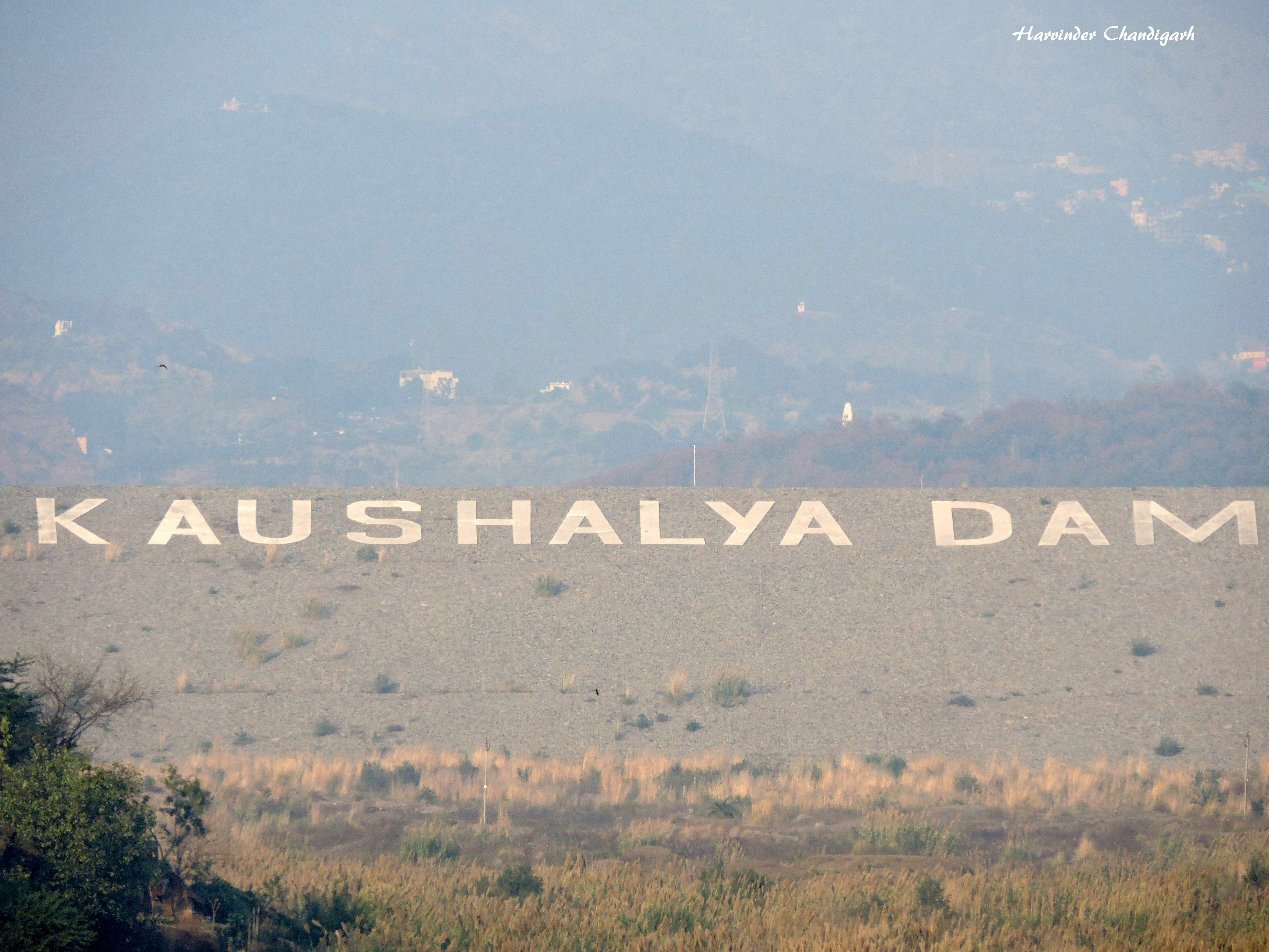 Kaushalya dam, near Pinjor, Haryana, India